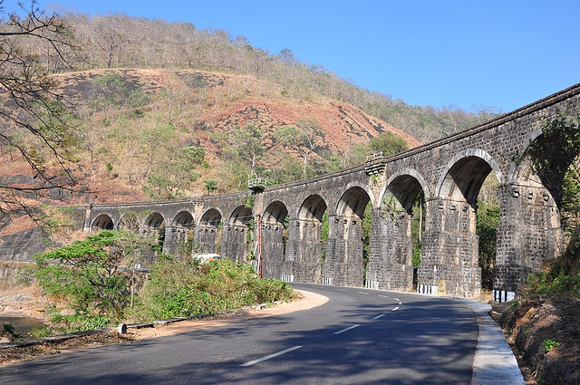 13 Arch Bridge at Kazhuthurutti near Aryankavu